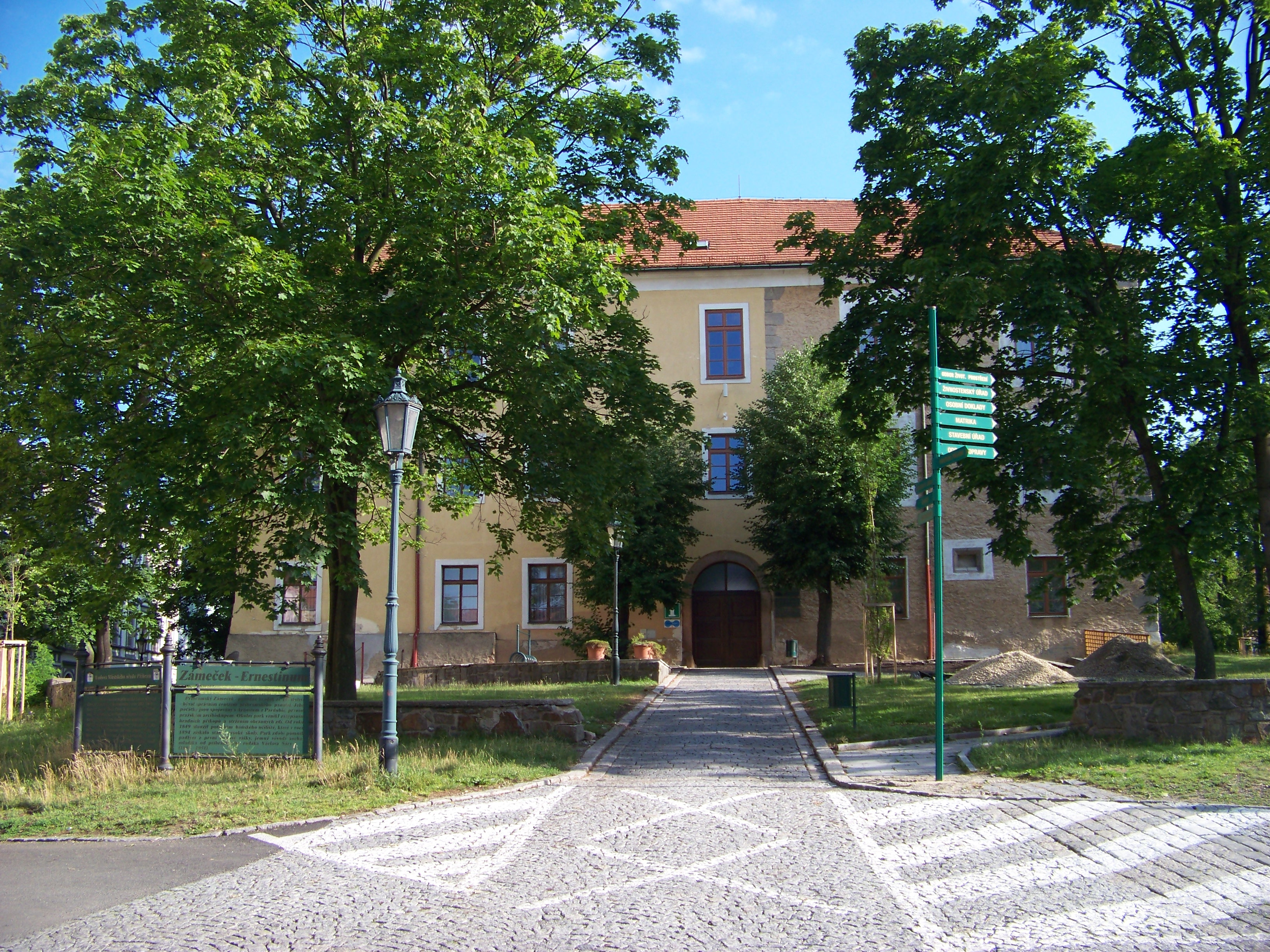 Příbram I, Příbram District, Central Bohemian Region, the Czech Republic. Tyršova 106, Ernestinum. - OpenStreetMap(Info)